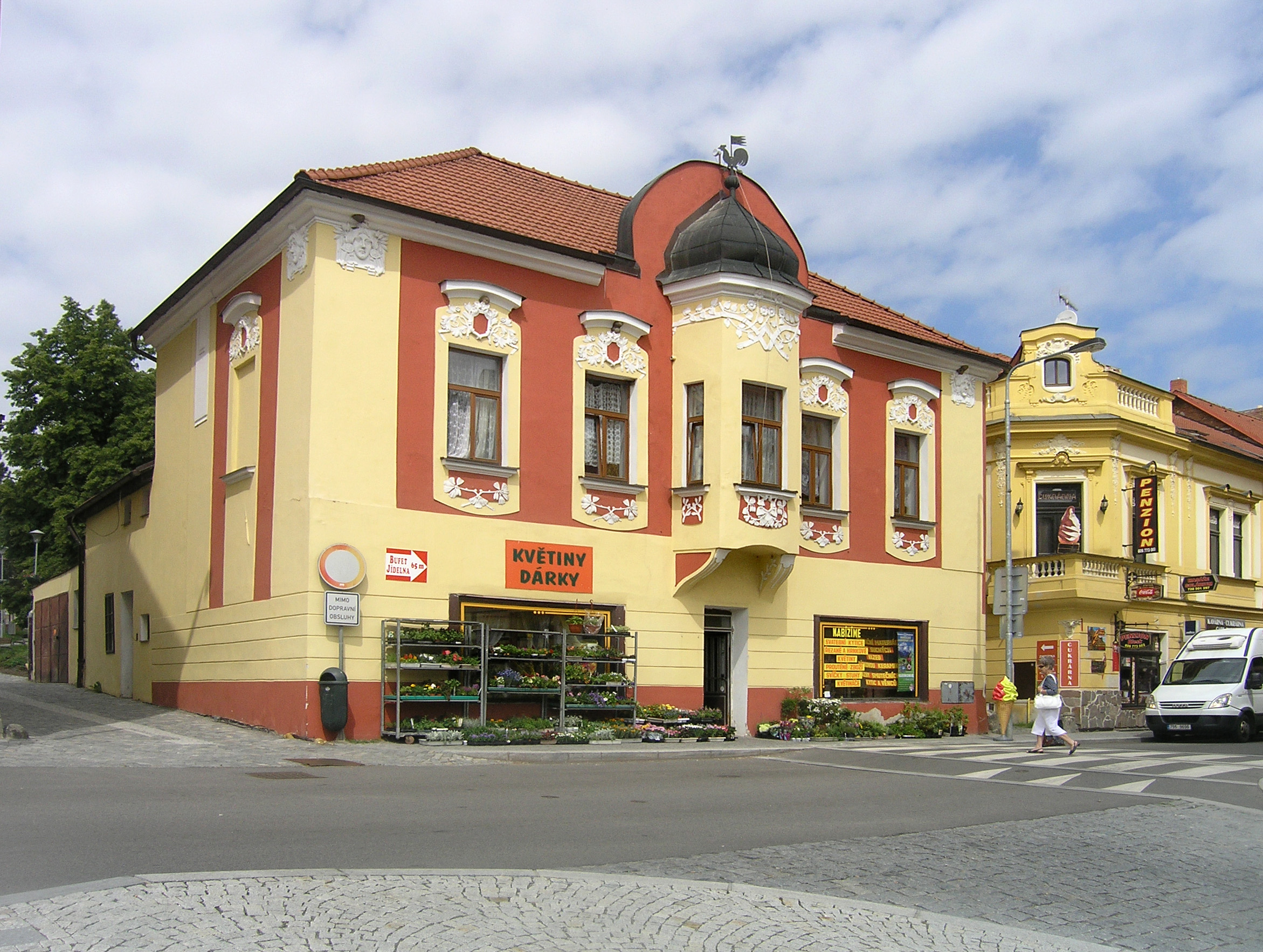 Komenského square in Votice, Czech Republic.